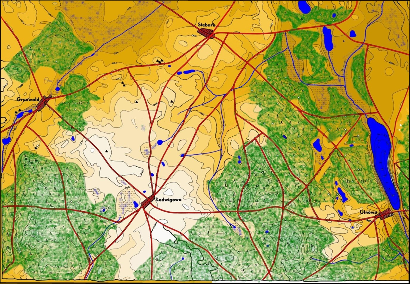 Battle of Grunwald (Battle of Tannenberg) 15.07.1410 area as it probably looked in 15th century.